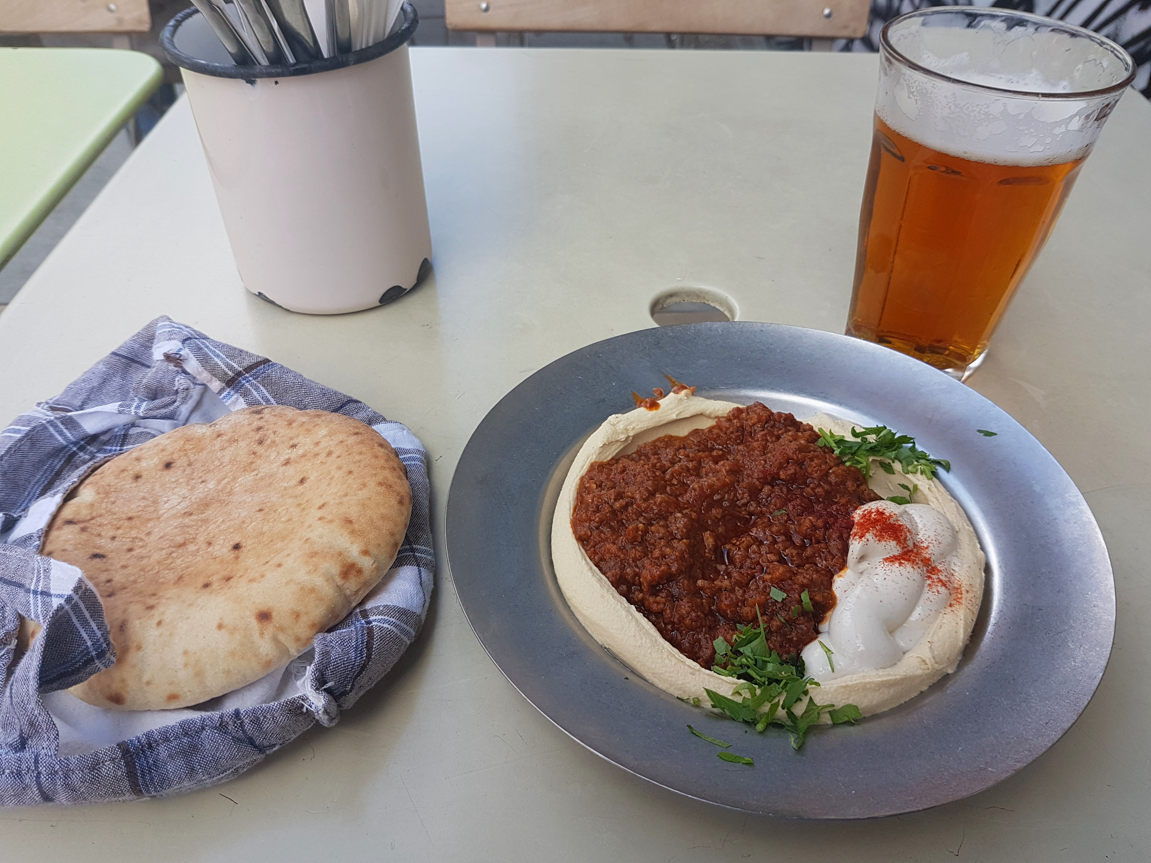 Hamshuka, lamb and minced beef in tomato sauce with chilly. There was hummus and pita bread with it. Photographed at Restaurant Neni at Naschmarkt in Vienna.